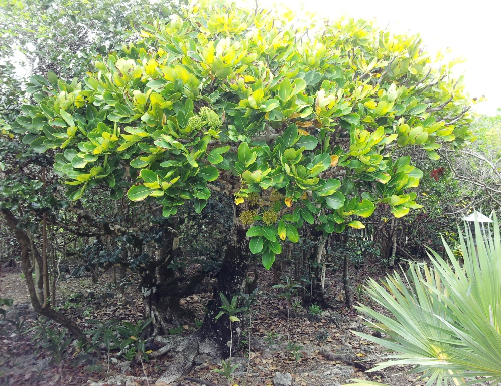 Gastonia mauritiana - Ile aux Aigrettes